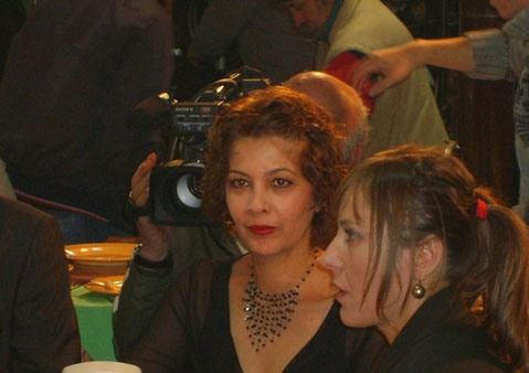 Photo of Belgin Güven.